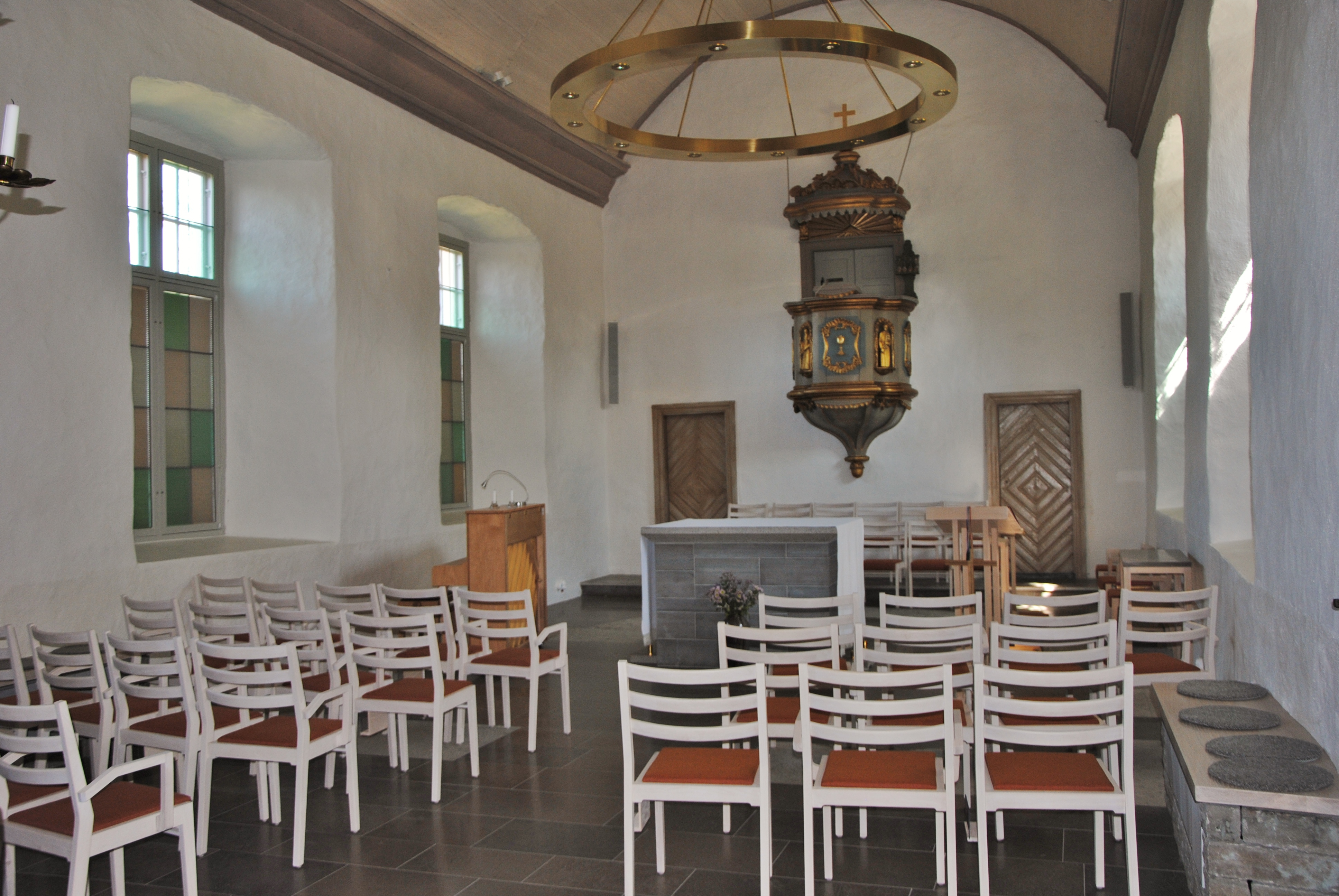 Ventlinge Church. The interior of the church looking east.